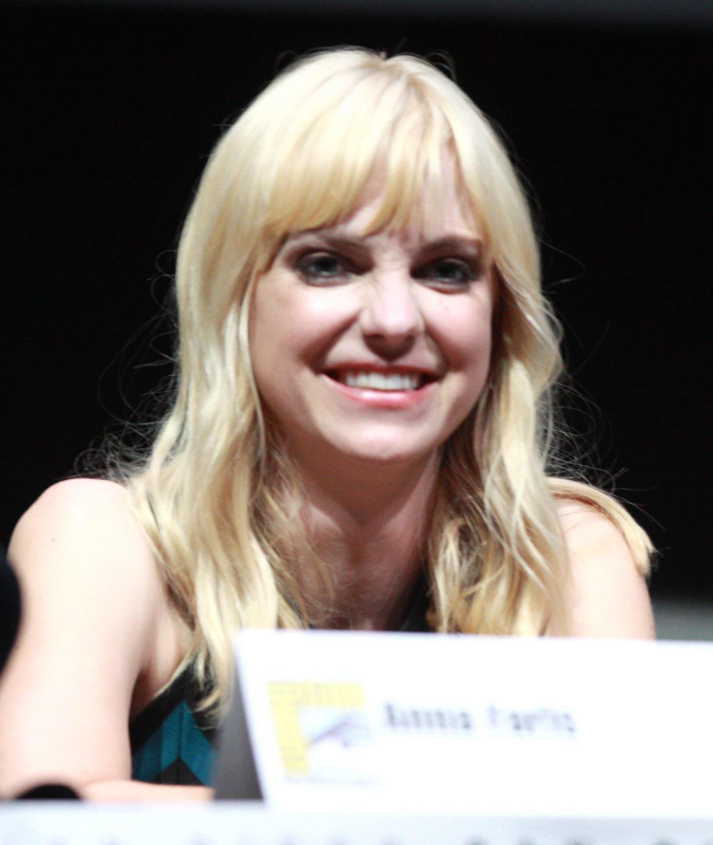 Anna Faris at the 2013 San Diego Comic Con International in San Diego, California.